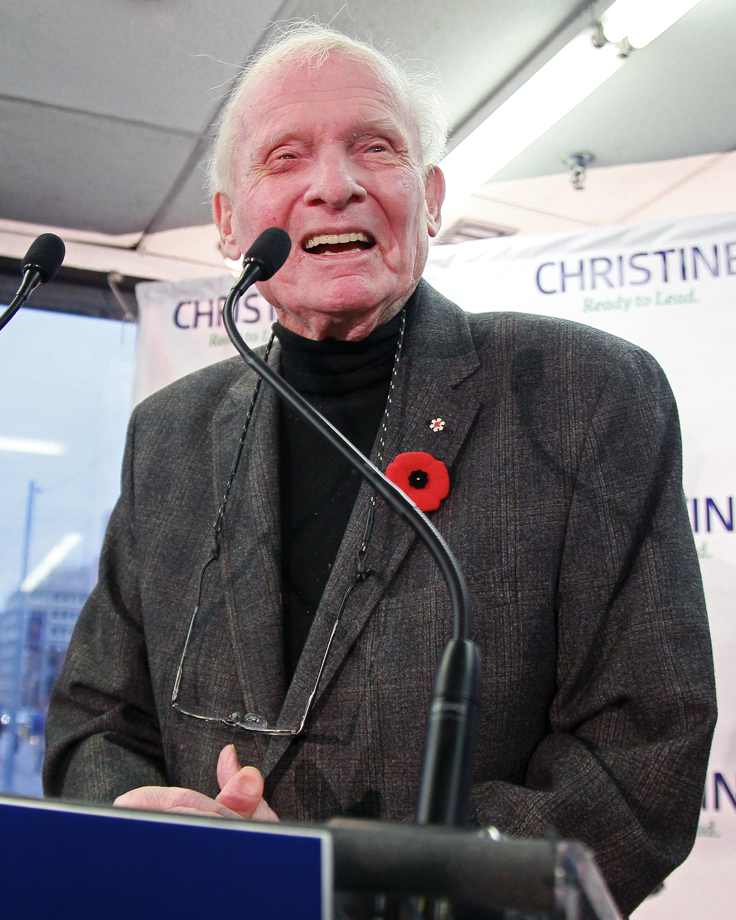 Former Ontario Premier Bill Davis telling jokes before introducing Christine Elliott as his choice for the next Ontario PC Party leader.